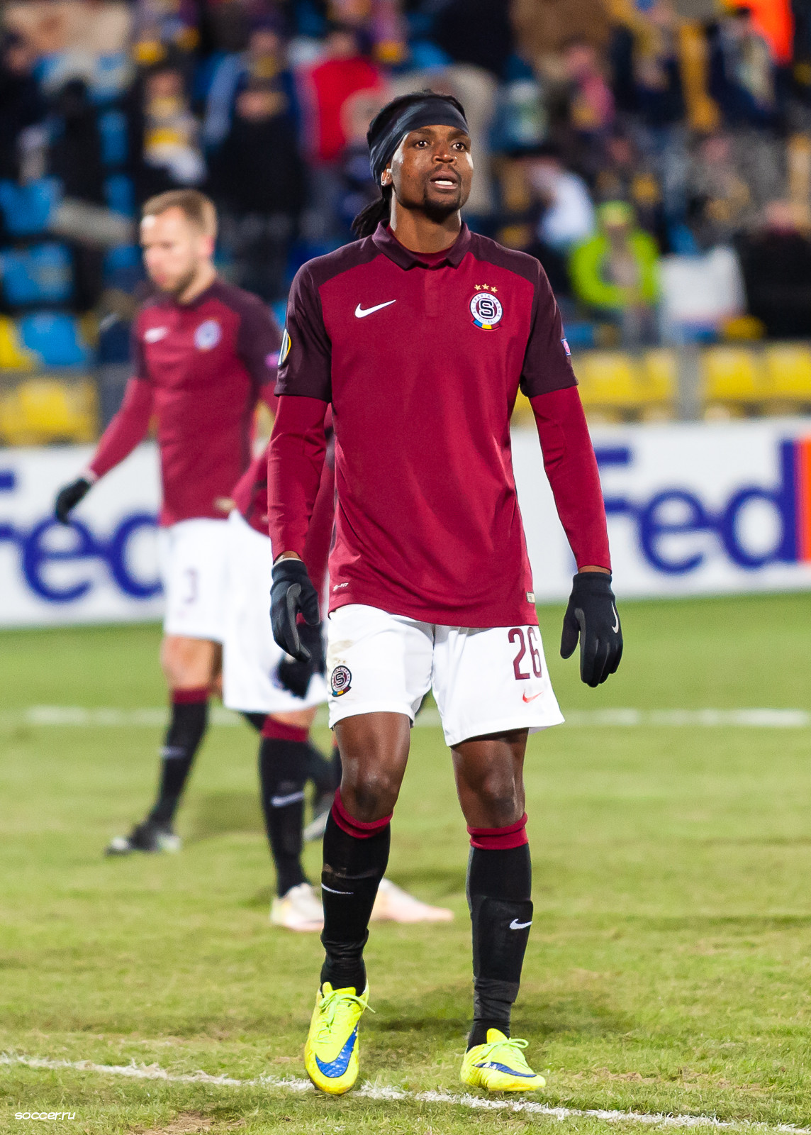 «Ростов» - «Спарта» (16.02.2017)